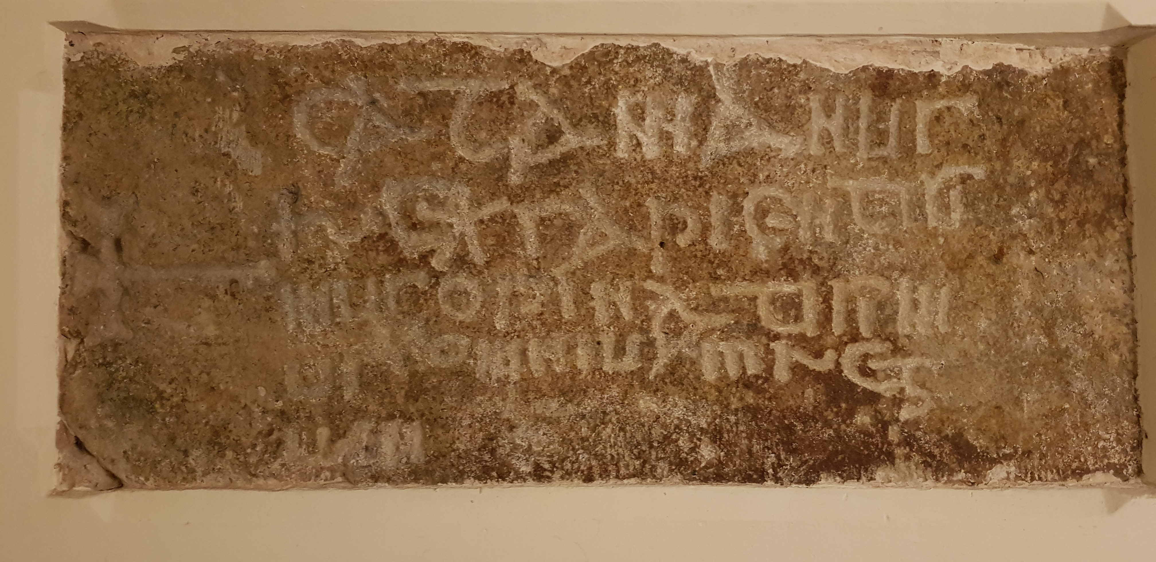 This is a photograph of the Catamanus stone in Llangadwaladr church